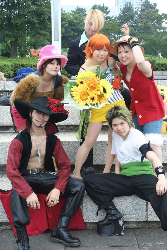 Group cosplay of One Piece in Yokohama, Japan.